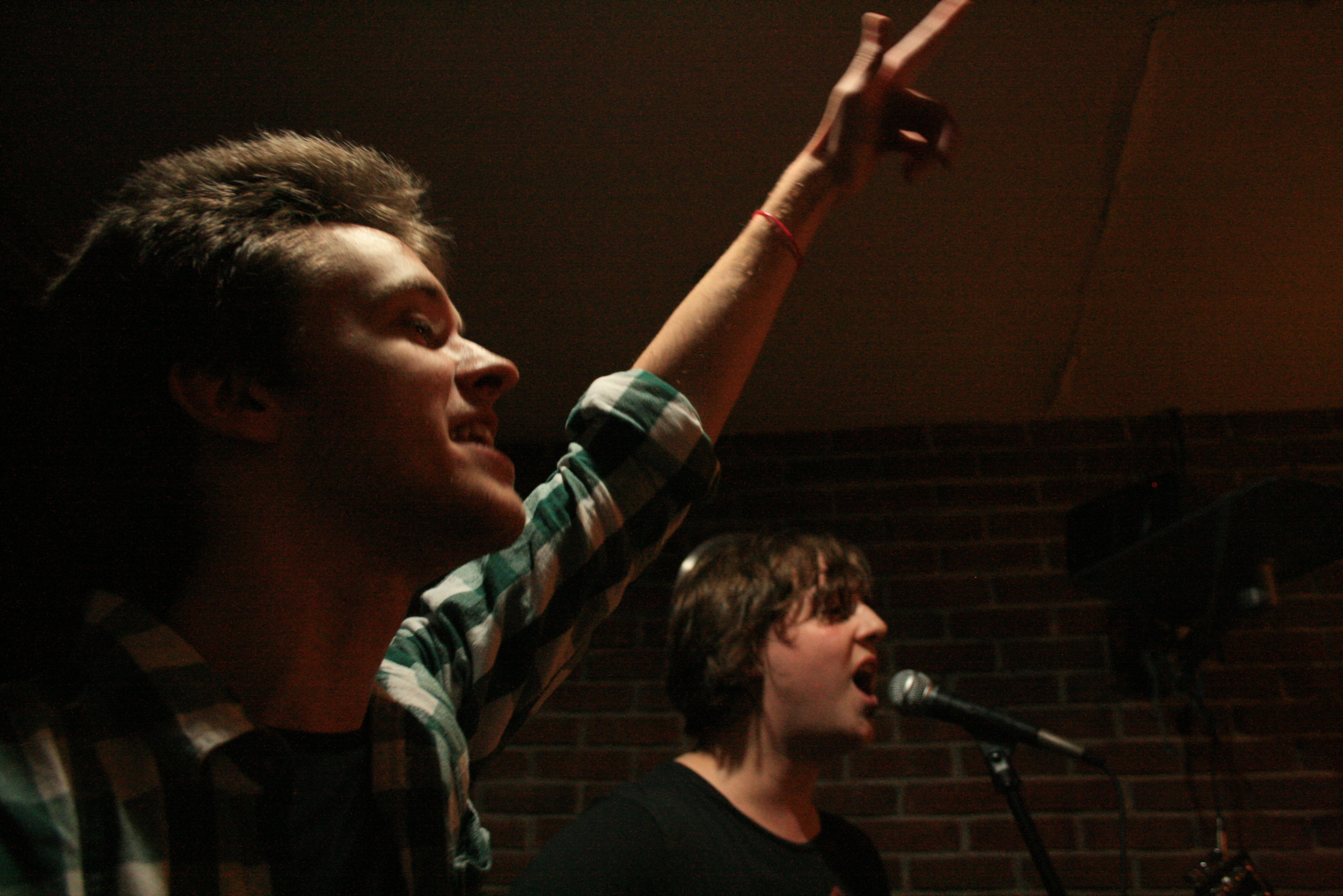 Alex Day performing in New York City at Gizzi's Coffee, with Eddplant